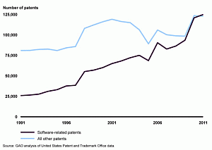 This is a graph showing issuance of software and non-software patents from 1194 to 2011, based on a GAO analysis